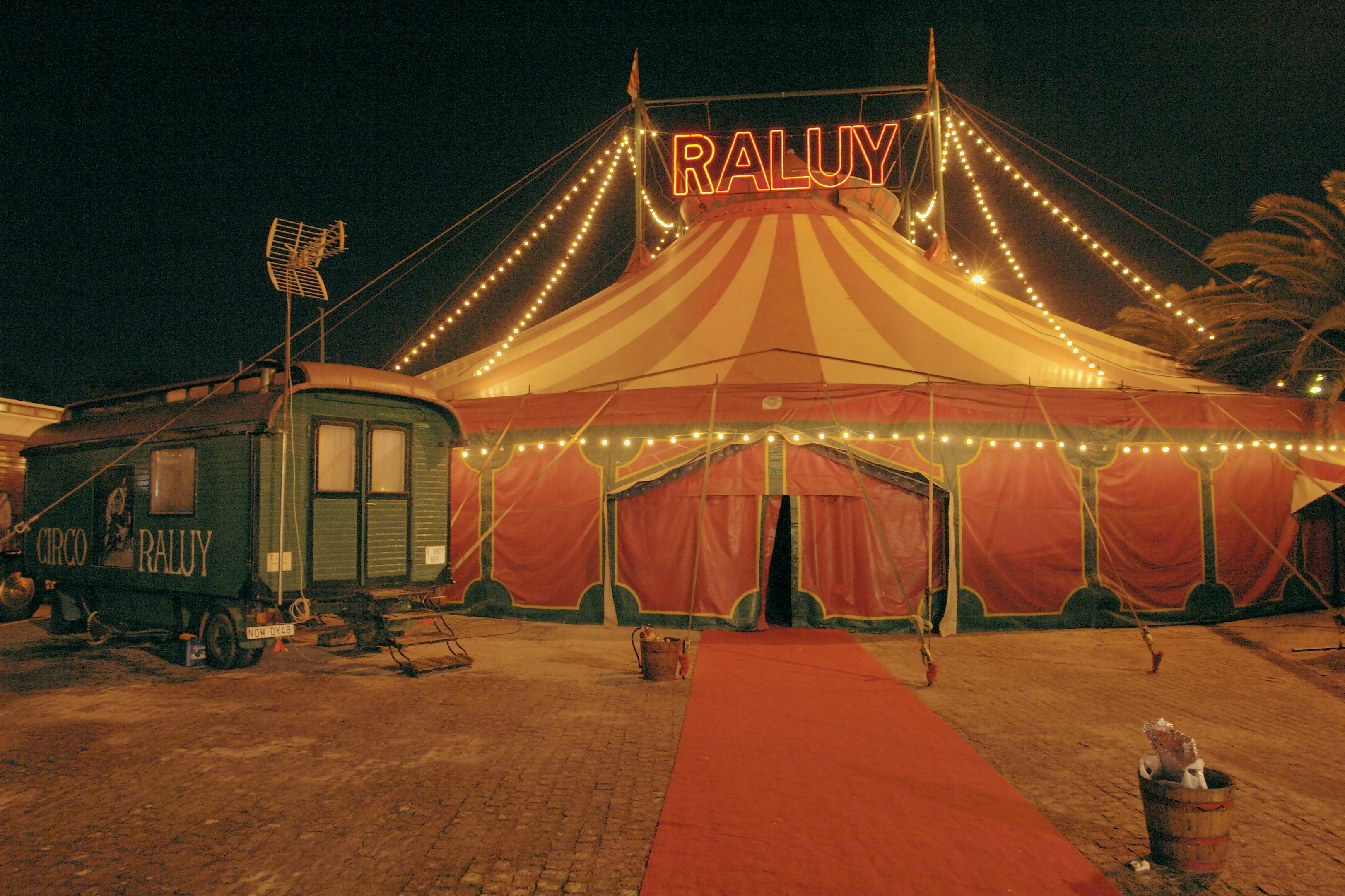 Catalan company Circ Raluy, camped near Terrassa.